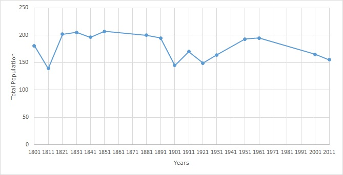 Total Population of Twinstead Civil Parish, Essex as reported by the Census of Population from 1801 to 2011.